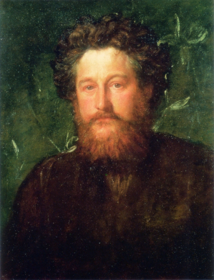 Portrait of William Morris by George Frederic Watts, oil on canvas, original 25 1/2 in. x 20 1/2 in. (648 mm x 521 mm), 1870.